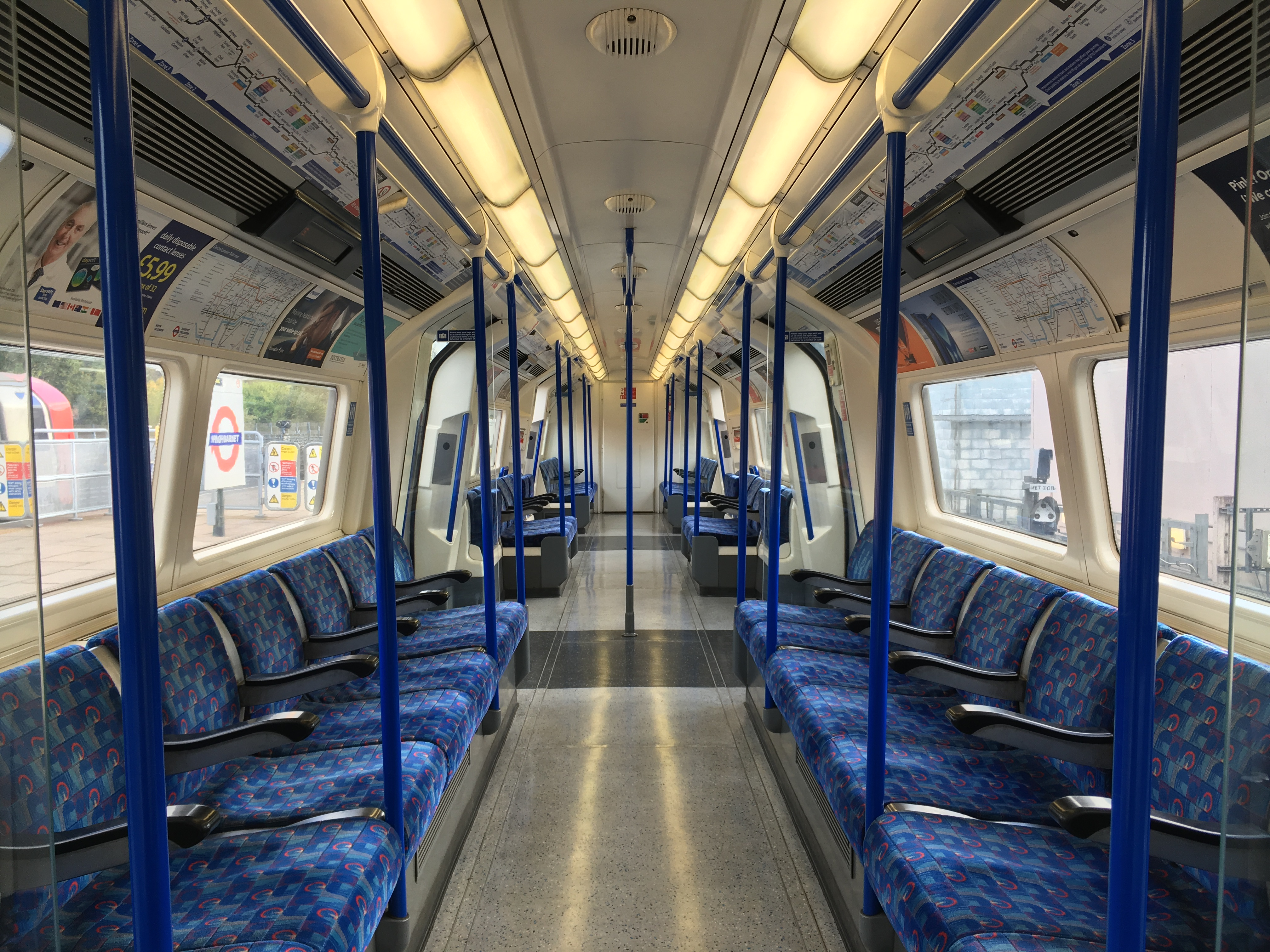 Interior of a 1995 Stock Driving Motor car